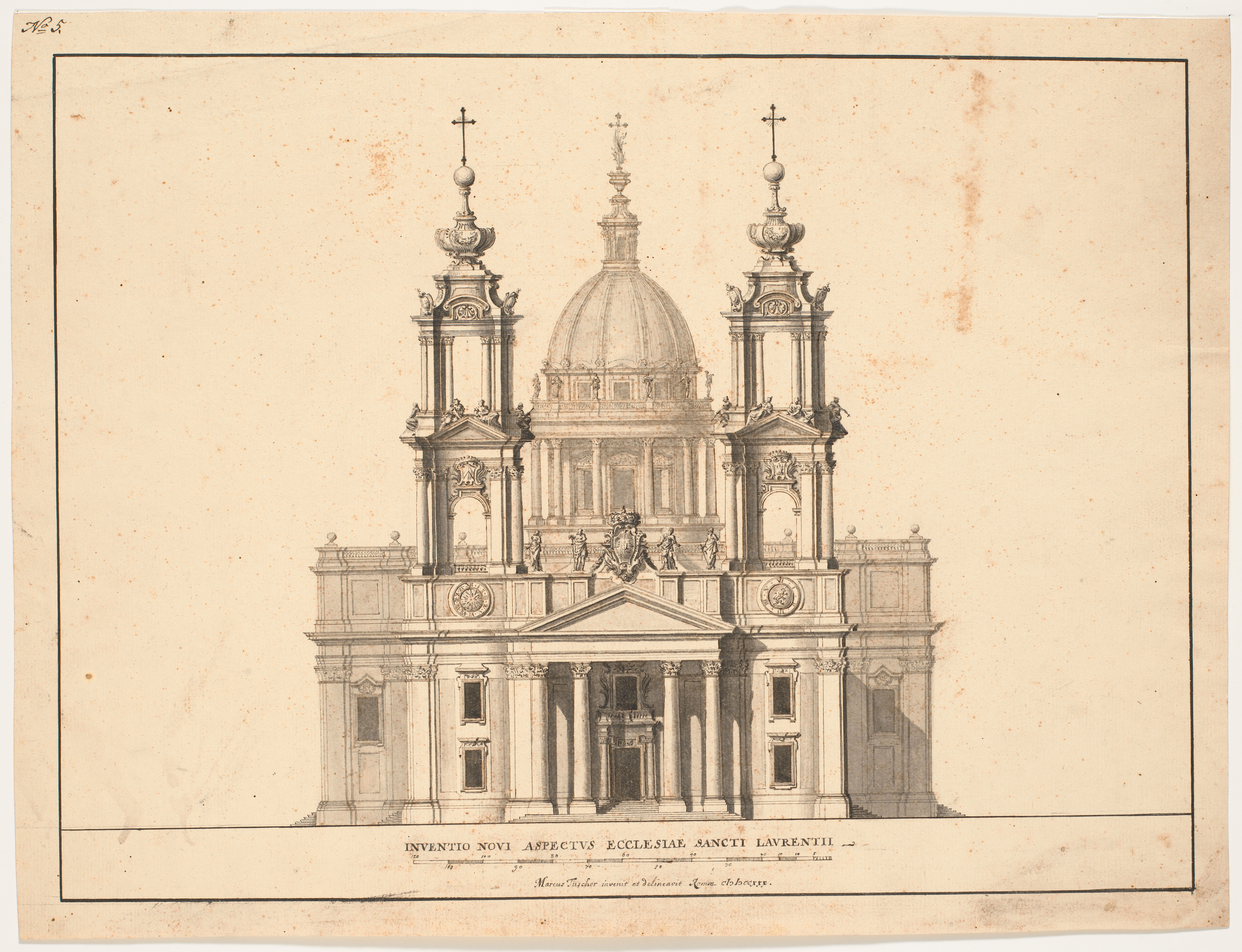 Proposal for the facade of S. Lorenzo in Florence. Pen, black ink, brush, and grey wash. Framed with pen and black ink. 349x457 mm. The Royal Collection of Graphic Art.